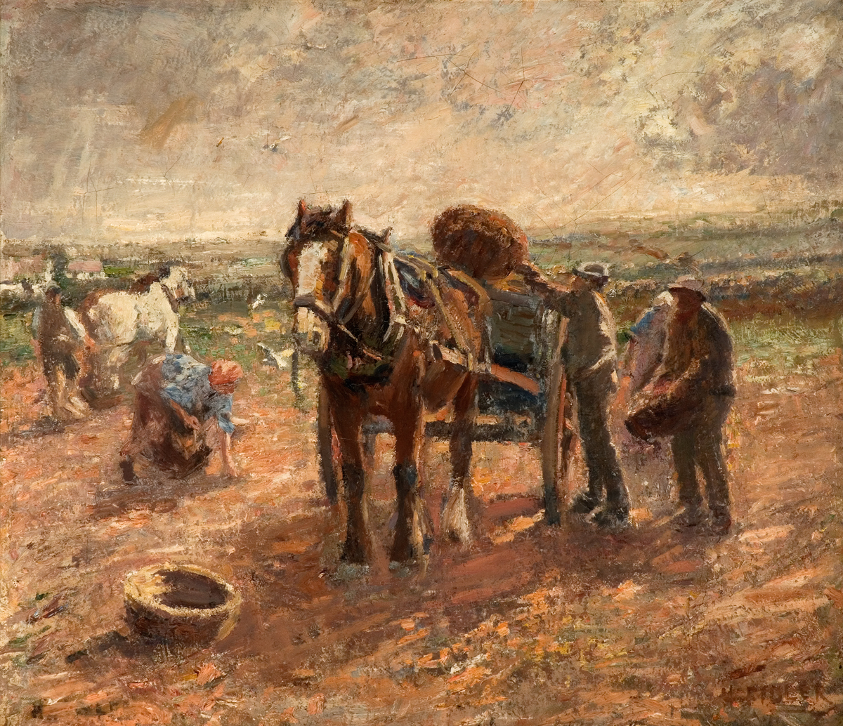 Clearing the Potato Field by Harry Fidler (1856-1935)